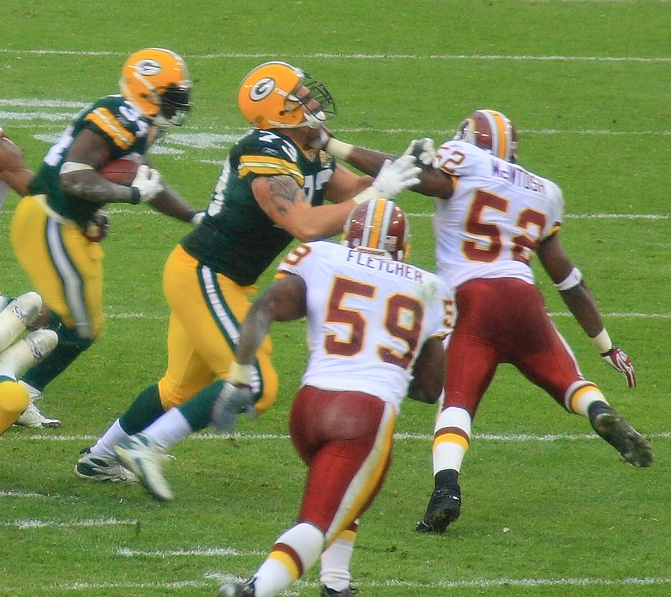 Vernand Morency (#34) running behind a Daryn Colledge (#73) block. London Fletcher (#59) and Rocky McIntosh (#52) are attempting to tackle him.